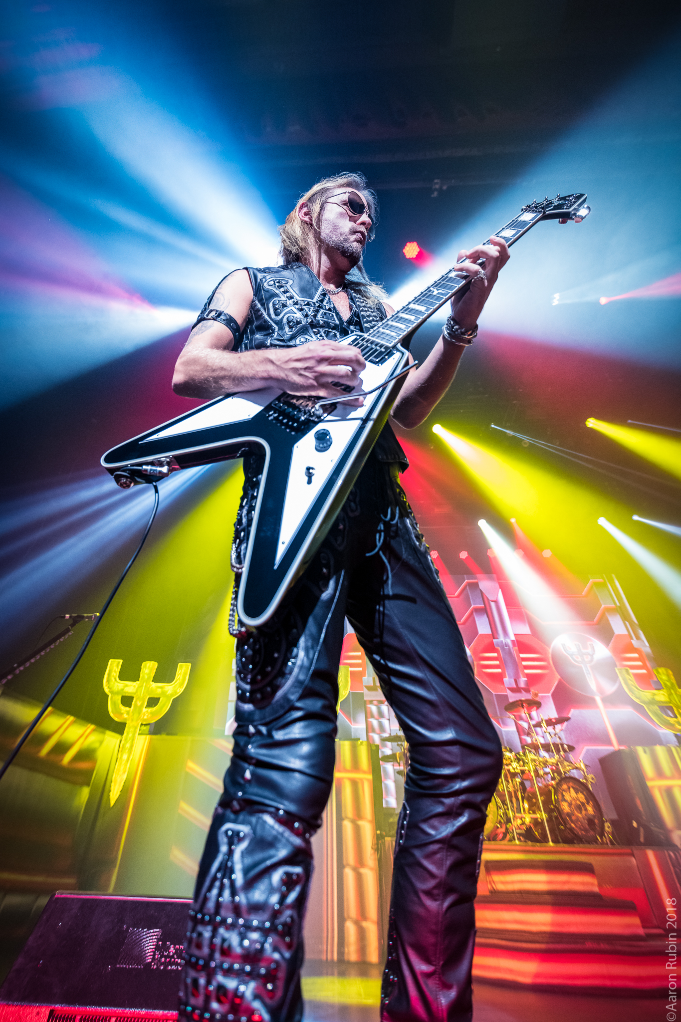 Richie Faulkner of Judas Priest at The Warfield Theater in San Francisco on the Firepower tour, April 19, 2018